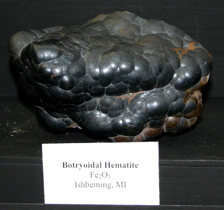 Source: Chris Ralph. This photo taken by Chris Ralph of [1], Photographer and author: photo taken by author.